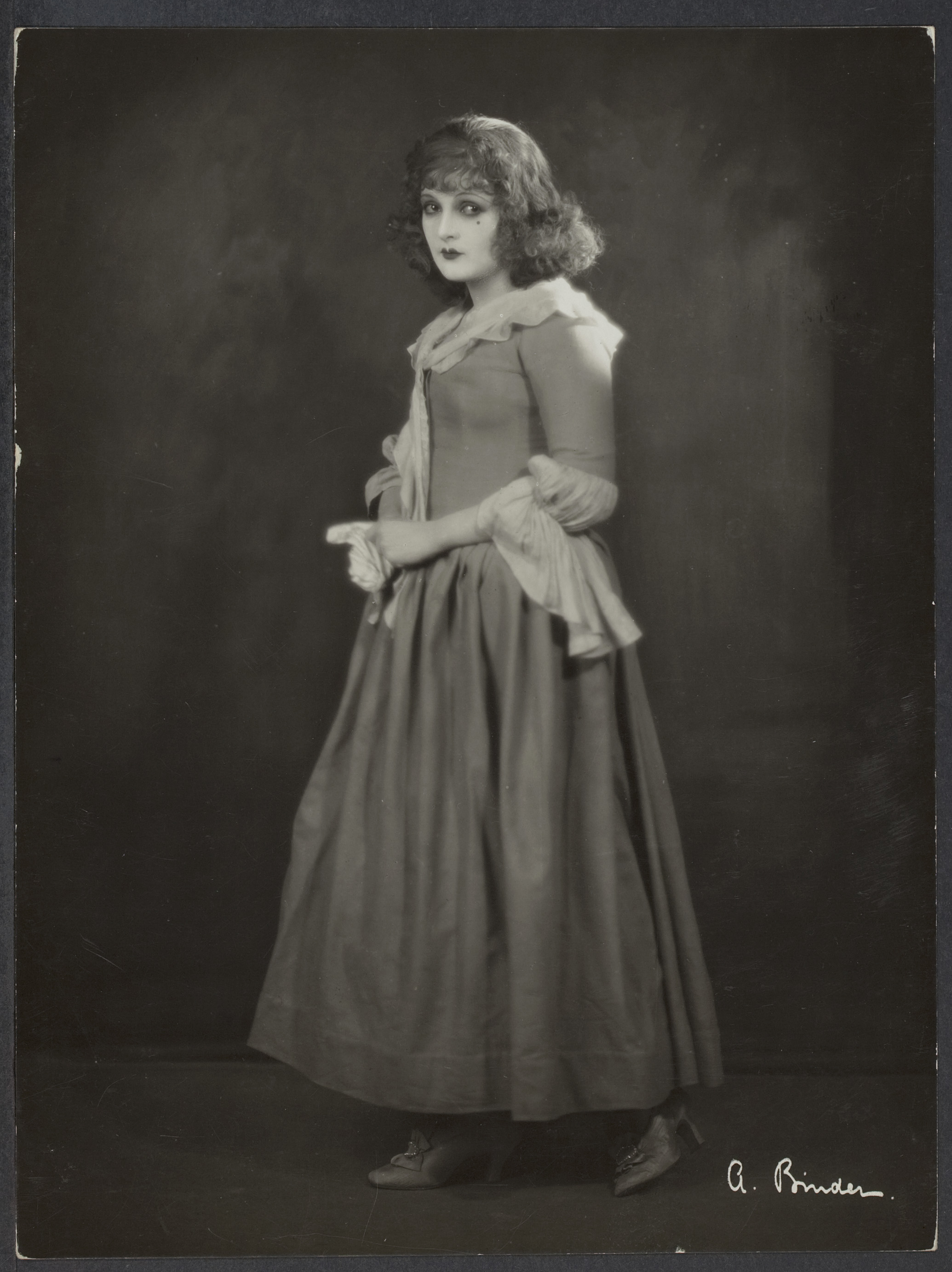 Lya De Putti in film Manon Lescaut by Arthur Robinson, 1926, UFA Universum-Film AG.